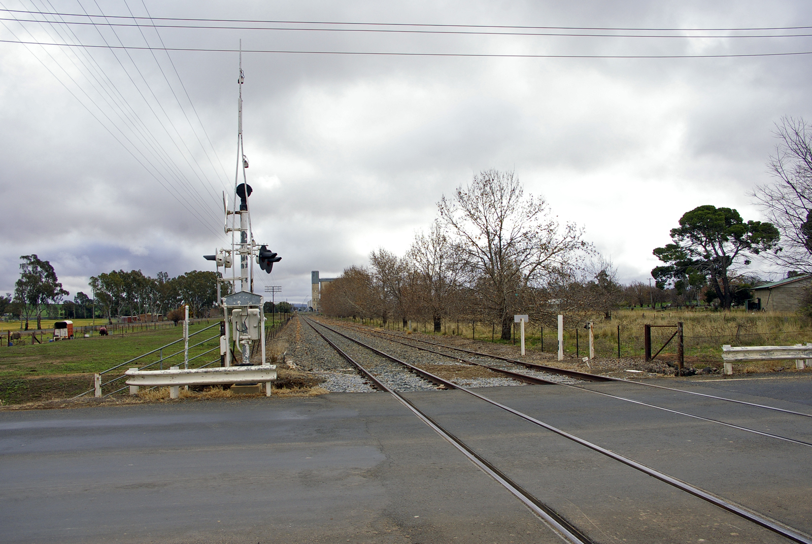 Hay railway lineJunee (Looking northwest).